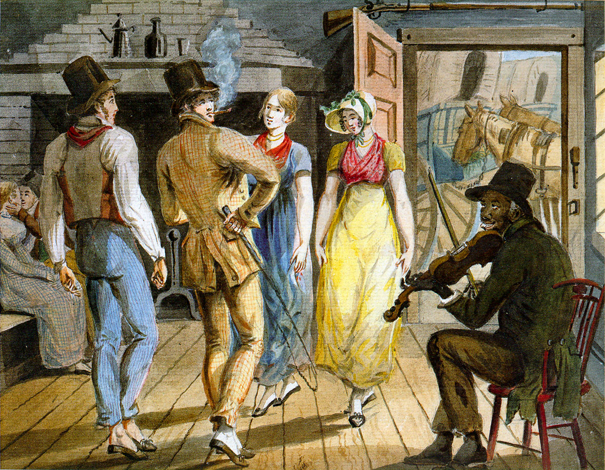 Shows Svinin's trip to the United States in the early 1810s. This depicts travellers grabbing a hurried and impromptu dance on the road in early 1810s America (in rural Pennsylvania in 1812?), and so shows practices which would have been considered inelegant or shockingly informal in many socially genteel circles in Europe at the time (such as smoking in the presence of ladies, smoking indoors, a man taking off his tailcoat in the presence of ladies -- leaving him wearing only his waistcoat and shirt on top -- and holding onto one's horsewhip while dancing). Only one of the women has bothered to take off her bonnet. One of the dancing men isn't wearing socks/stockings. At left, a couple is indulging in what could be considered an inappropriate public display of affection by some European standards of etiquette, while at right a black fiddler provides the music for the dance. Wagons can be seen outside the door. Pavel Petrovich Svinin was a Russian who visited the United States (as secretary to the Russian diplomatic representative) in the early 1810s, during which he painted a number of watercolors of life in America. Later he published the book Voyage Pittoresque Aux Etats-Unis de l'Amérique par Paul Svignine en 1811, 1812, et 1813.